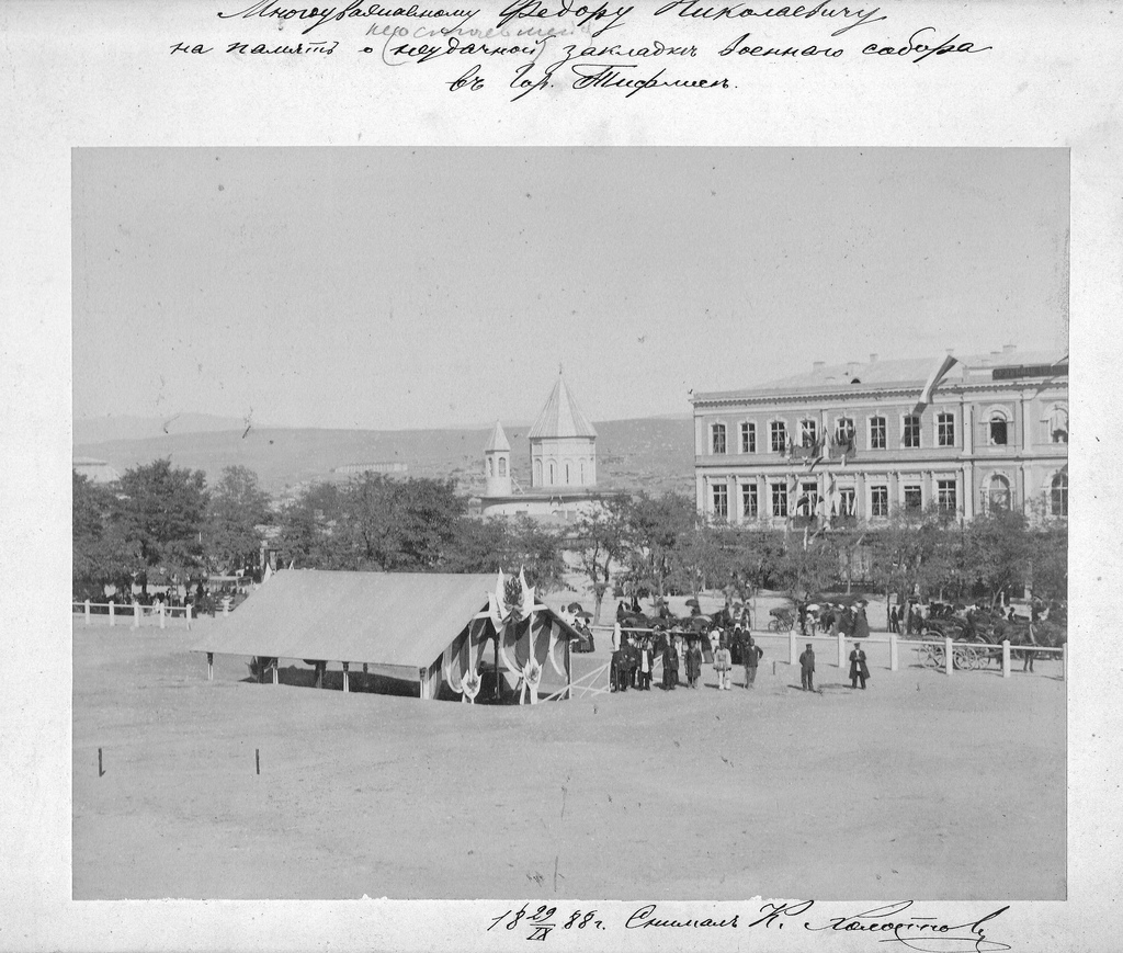 Alexander Nevsky Cathedral, Tbilisi, Georgia in the 19th century.